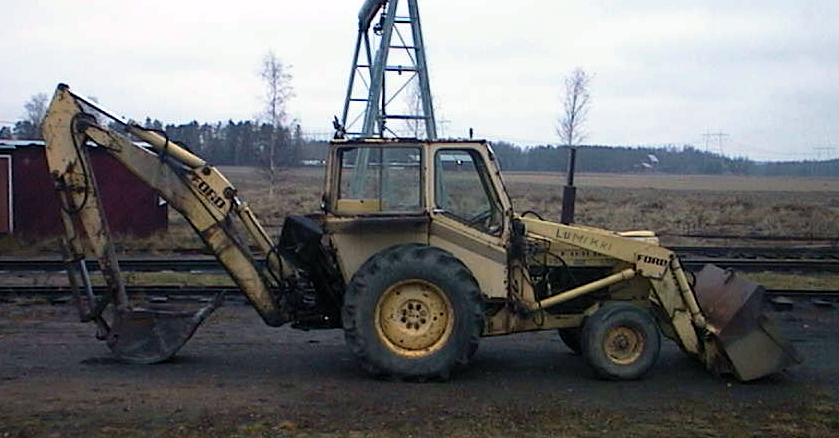 Ford backhoe loader at Jokioinen museum railway in Finland